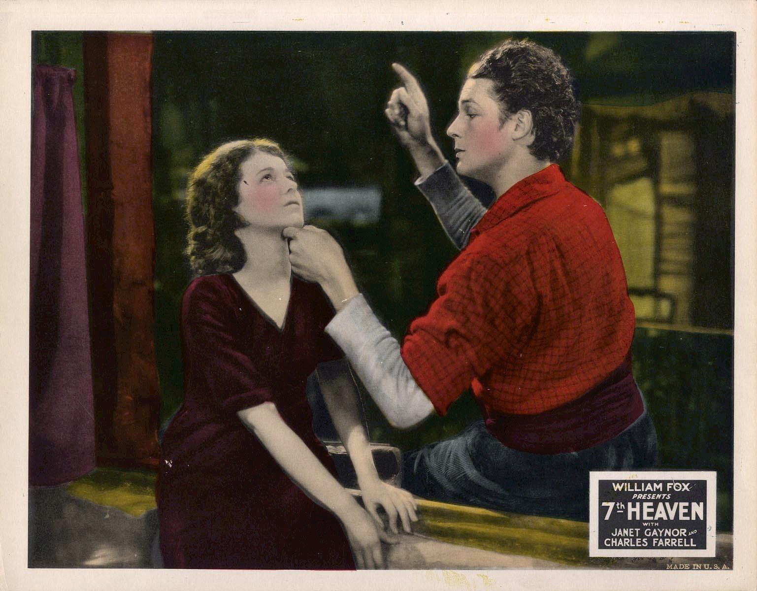 Lobby card for the American romantic drama film 7th Heaven (1927).